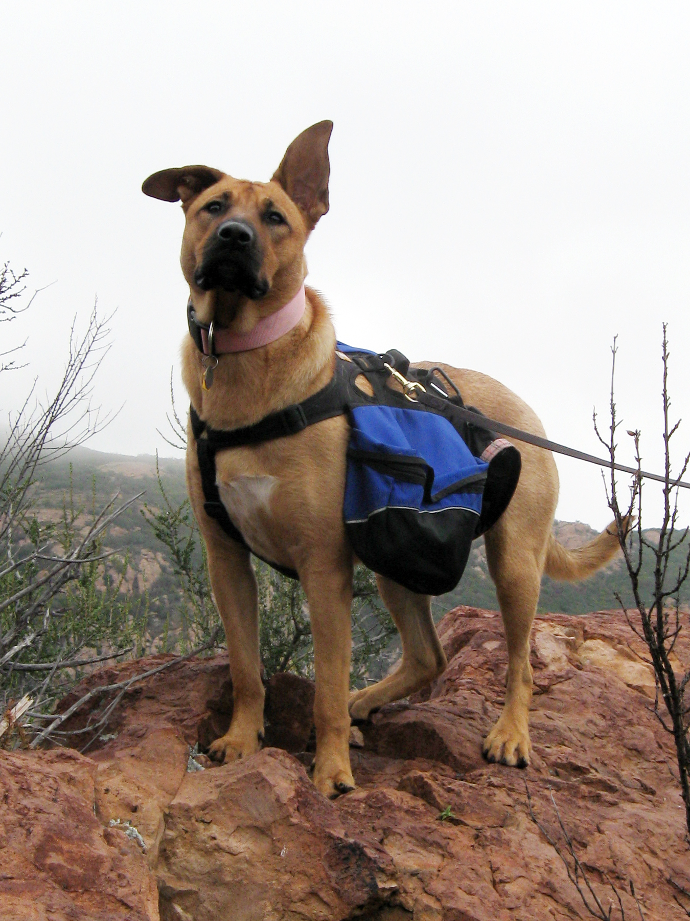 Bella's first time out with the dogpack. I bought the pack for Cisco a few years ago, but he absolutely refused to go anywhere (even around the block) with the pack on. Bella had no problem with it. A dogpack isn't very important on a day hike, but when backpacking every ounce counts, so we intend that she should carry her own water, food and poo. She will carry the pack on day hikes as training for overnights.